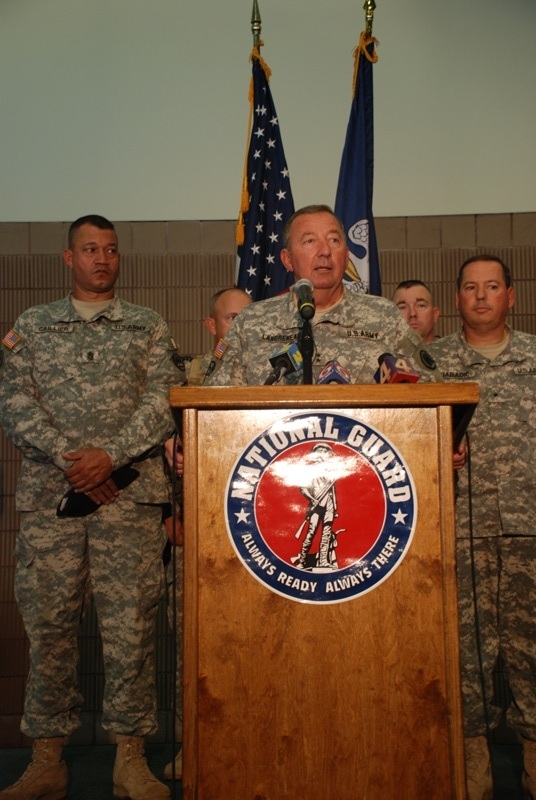 NEW ORLEANS- Maj. Gen. Bennett C. Landreneau, adjutant general of the Louisiana National Guard, talks to reporters about the Guard’s preparedness for hurricane operations at the Ernest Morial Convention Center in New Orleans prior to the landfall of Hurricane Gustav.